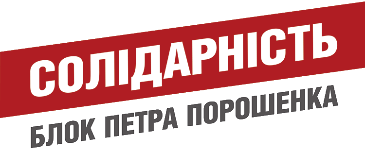 Logo of Petro Poroshenko Bloc